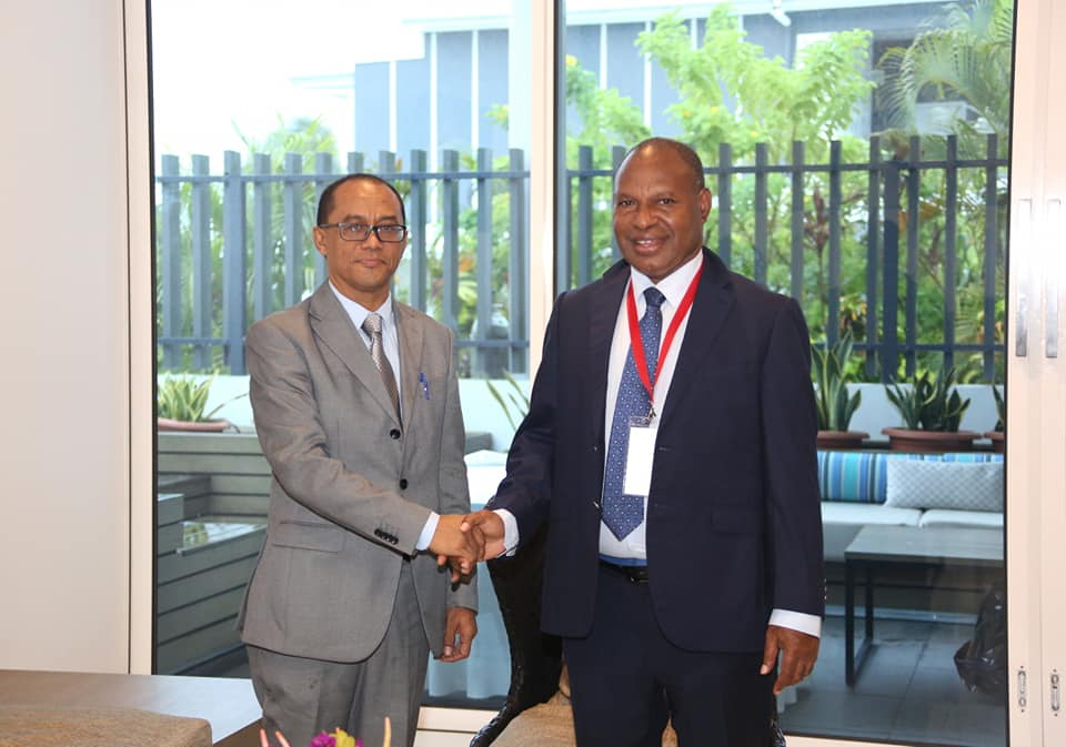 Dioníso Babo, Minister for Foreign Affairs and Richard Maru, Minister of National planning and monitoring of Papua New Guinea